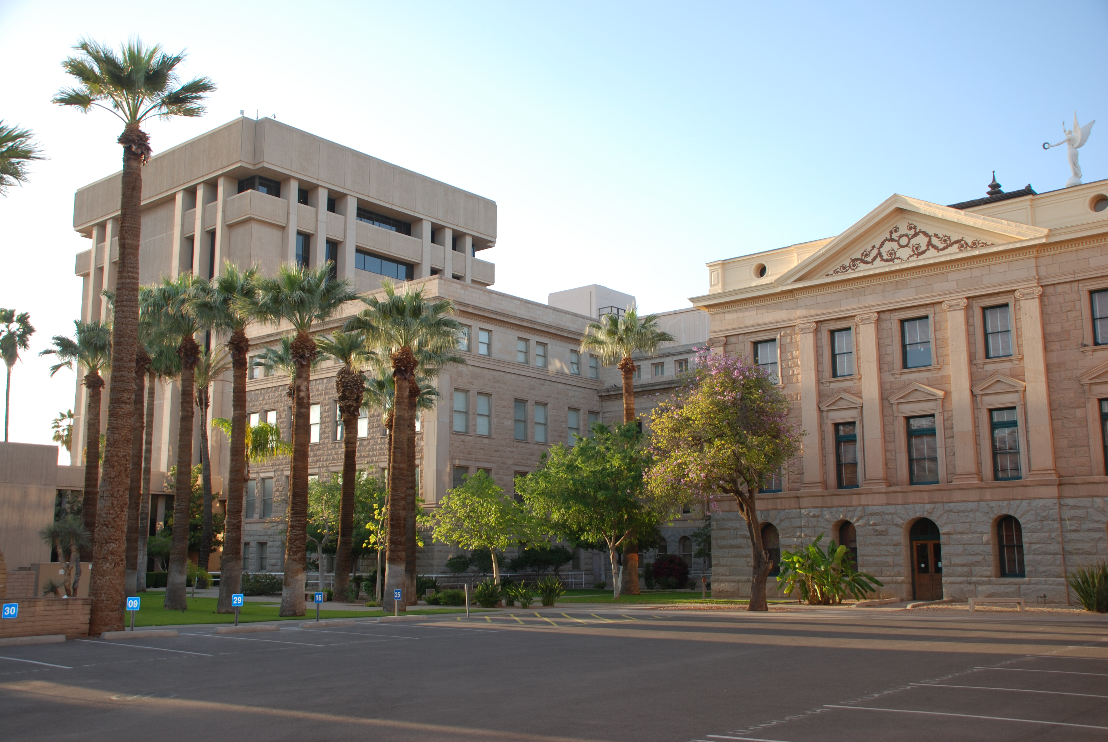 Arizona State Capitol and Executive Tower, Phoenix, Arizona, USA